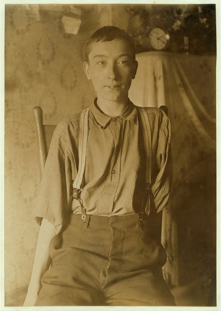 134 Broadway, Cincinnati, Ohio. Harry McShane, 16 yrs. of age on June 29, 1908. Had his arm pulled off near shoulder, and right leg broken through kneecap, by being caught on belt of a machine in Spring factory in May 1908. Had been working in factory more than 2 yrs. Was on his feet for first time after the accident, the day this photo was taken. No attention was paid by employers to the boy either at hospital or home according to statement of boy's father. No compensation.